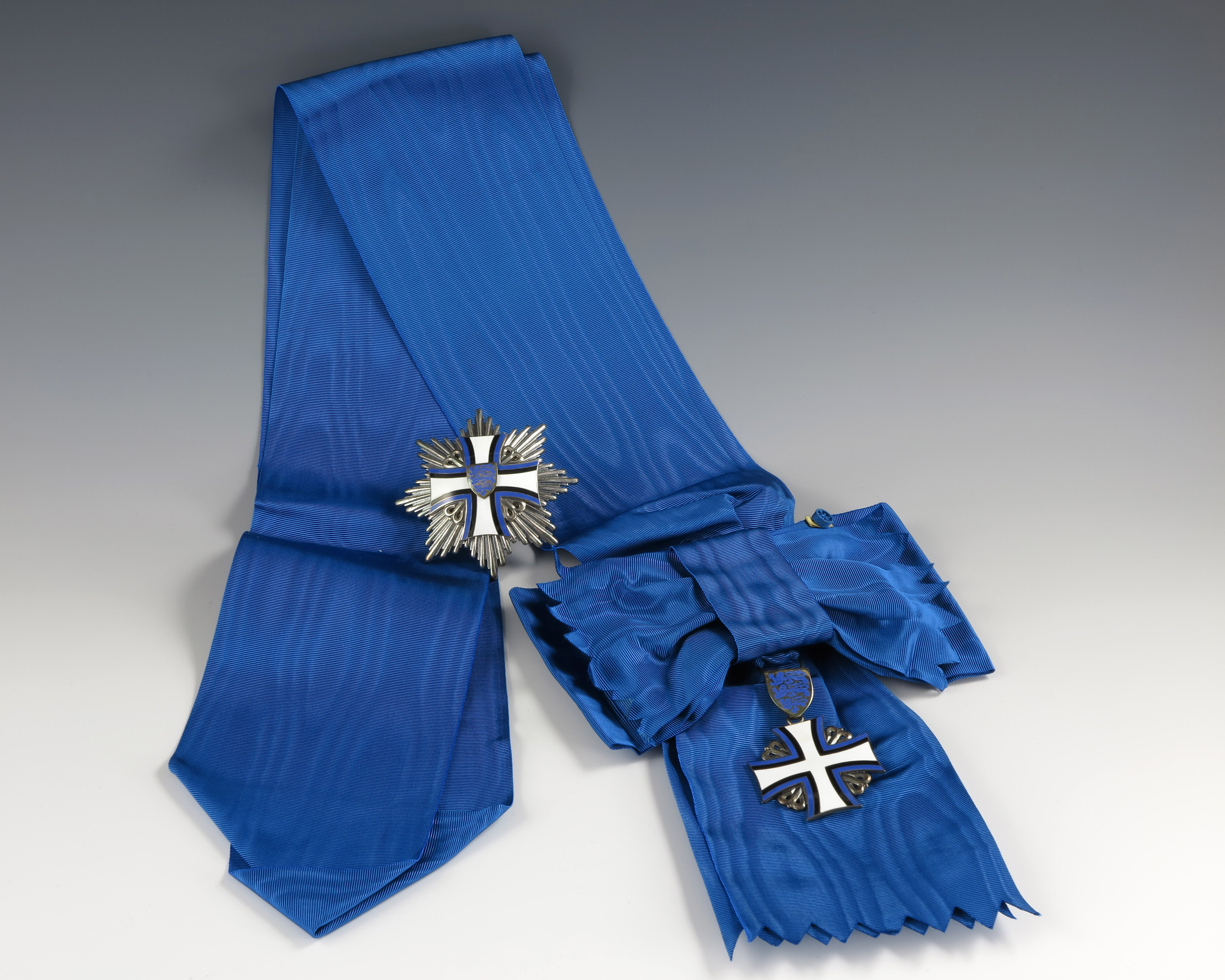 Order of the Cross of Terra Mariana features a silver Mantuan cross covered on both sides with white enamel, with the arms of the cross being bordered on both sides with enameled blue and black stripes. The reverse of the cross bears the words “PRO TERRA MARIANA.” The cross is suspended from a blue sash with a gothic shield bearing three blue lions connecting the two. Included with the sash is a separate eight pointed silver star surmounted by a Cross of Terra Mariana with a golden gothic shield with three blue lions in the center of the cross. Note:This Order of The Cross of Terra Mariana was bestowed upon former President Gerald R. Ford in February 1996 by the Republic of Estonia as a decoration of the highest class on aliens who had rendered special services to the Republic of Estonia.